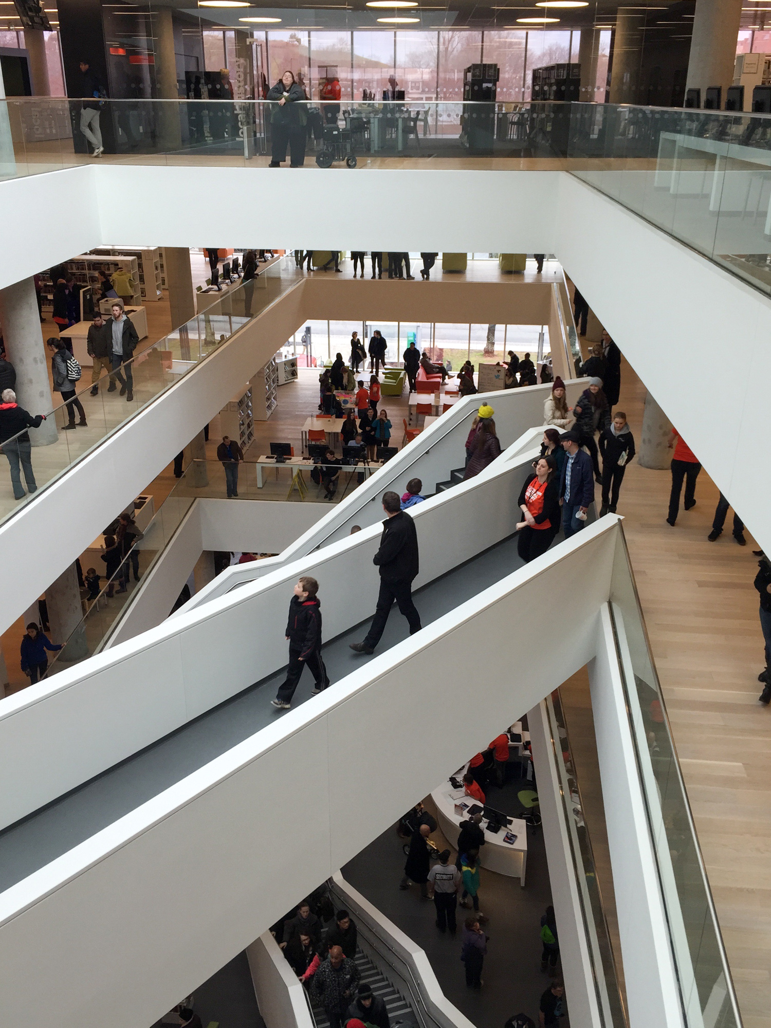 Inside the Halifax Central Library looking down from the 4th floor.